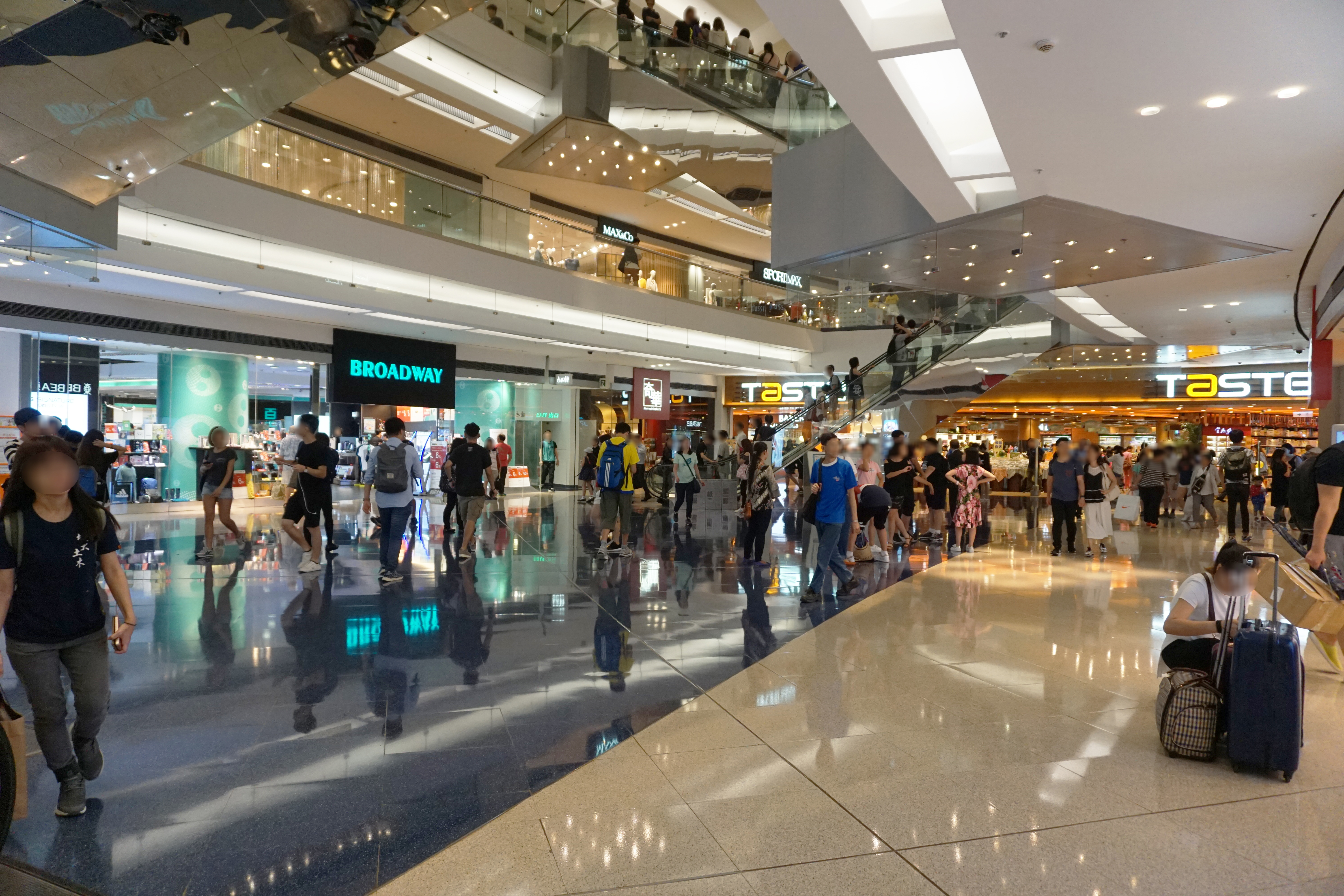 Festival Walk in Kowloon Tong, Hong Kong.